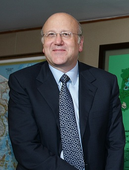 ARAB League & SOUTH AMERICA Summit, 2005